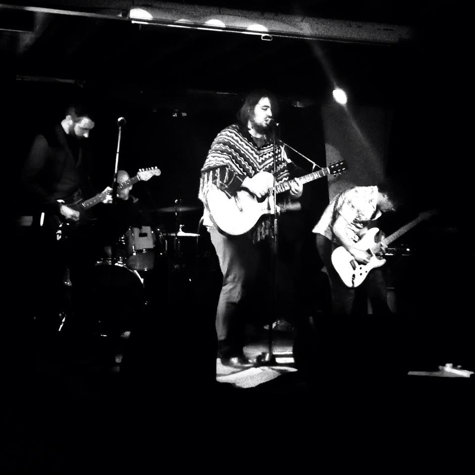 Politburo Live at Kraak 2013